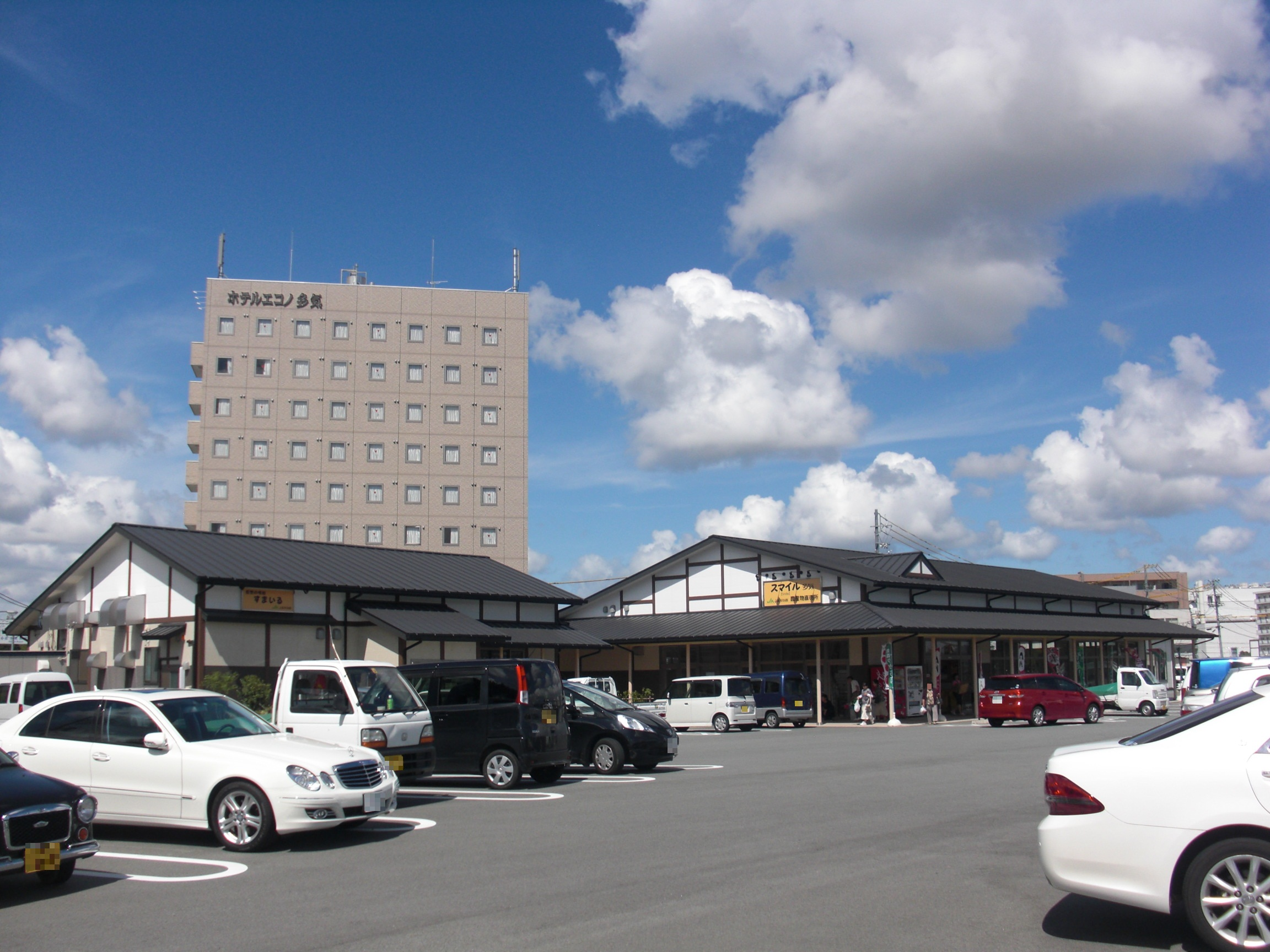 This is the shop named "Smile Taki shop", which is in Taki, Mie, Japan. JA Takigun runs this shop.